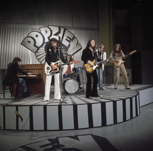 Sutherland Brothers & Quivver, rop/rock program 'Popzien' on Dutch television